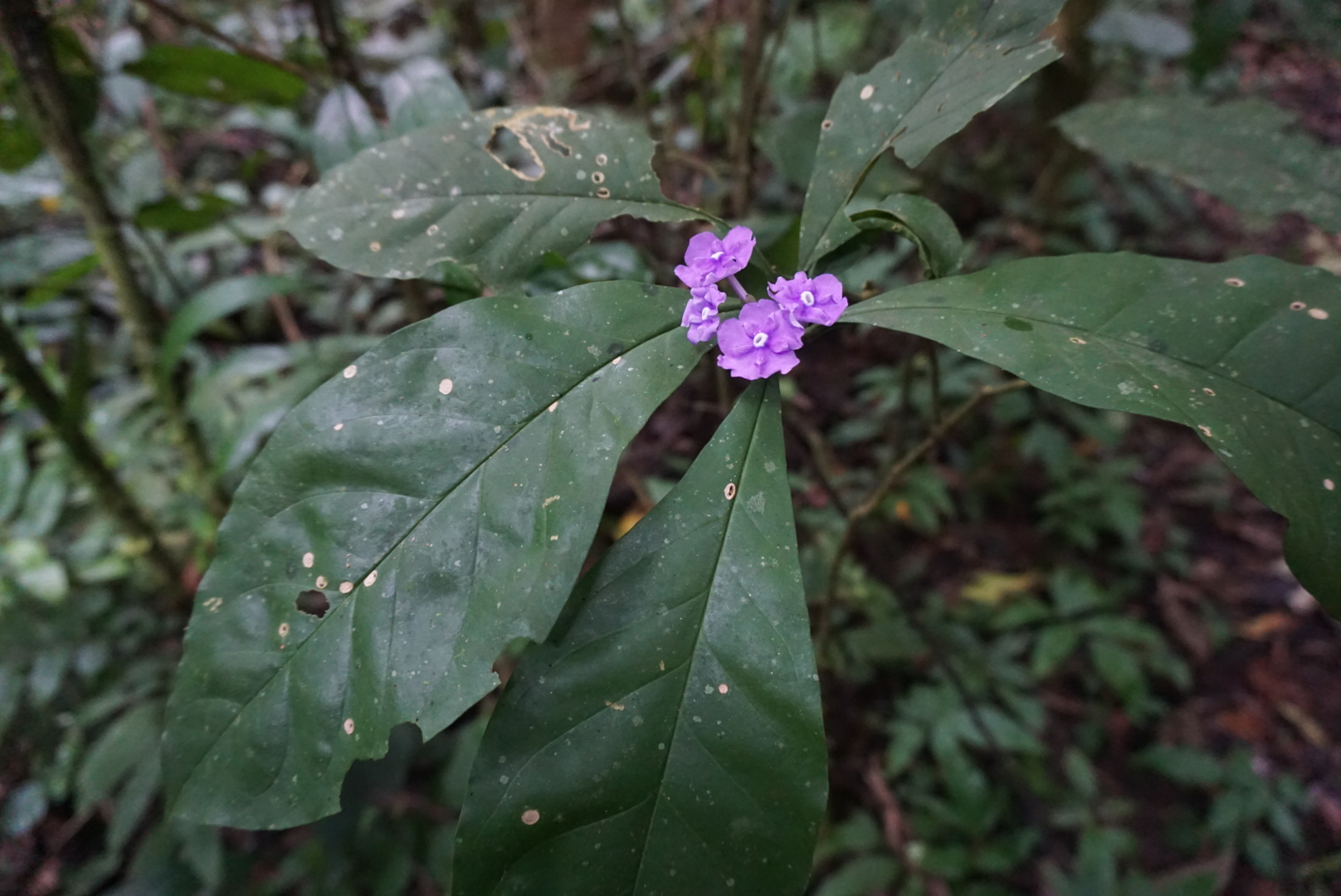 Brunfelsia flower seen on a trail near the station.